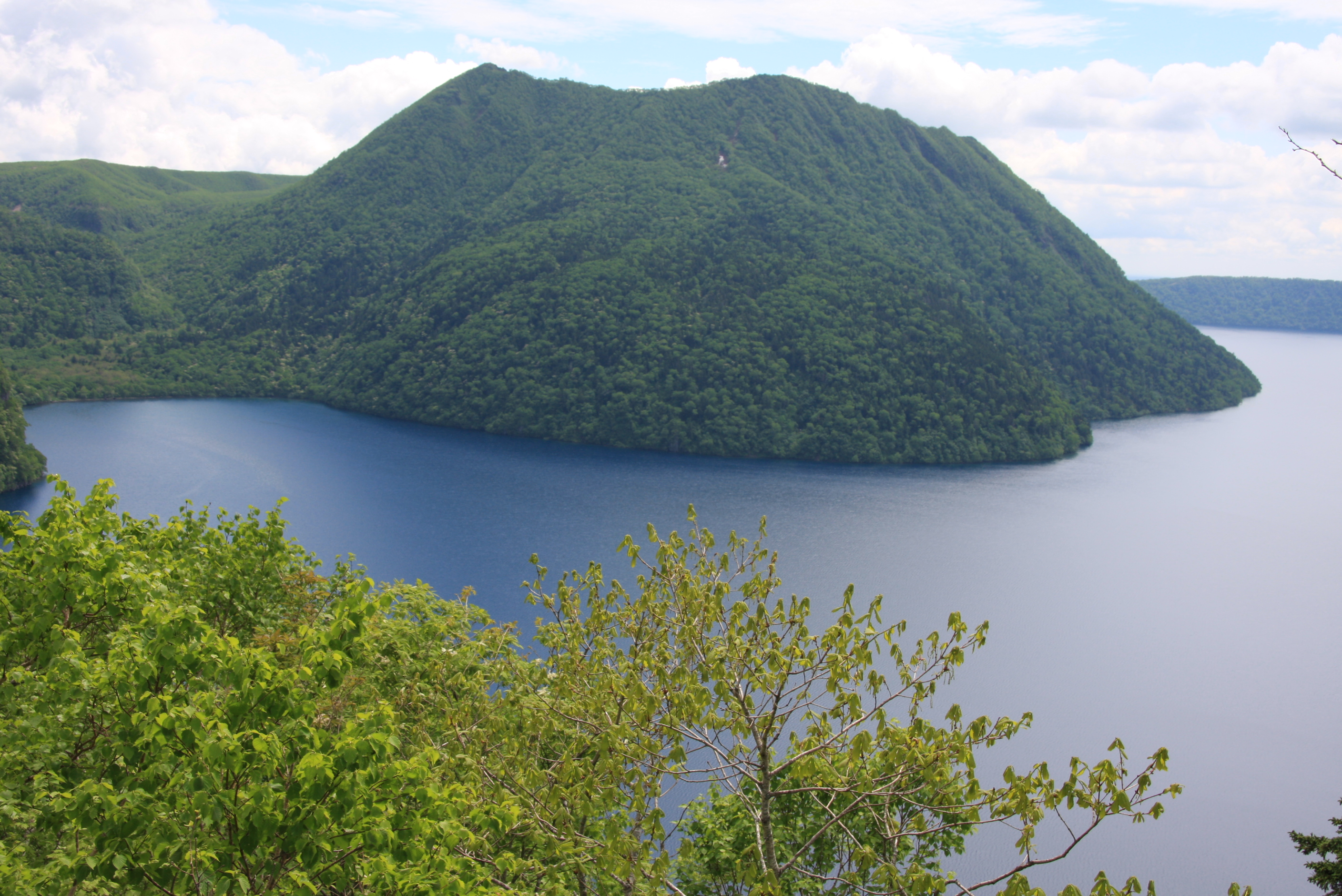 Mashudake seen from the NNE. Taken from Uramashu Observatory.